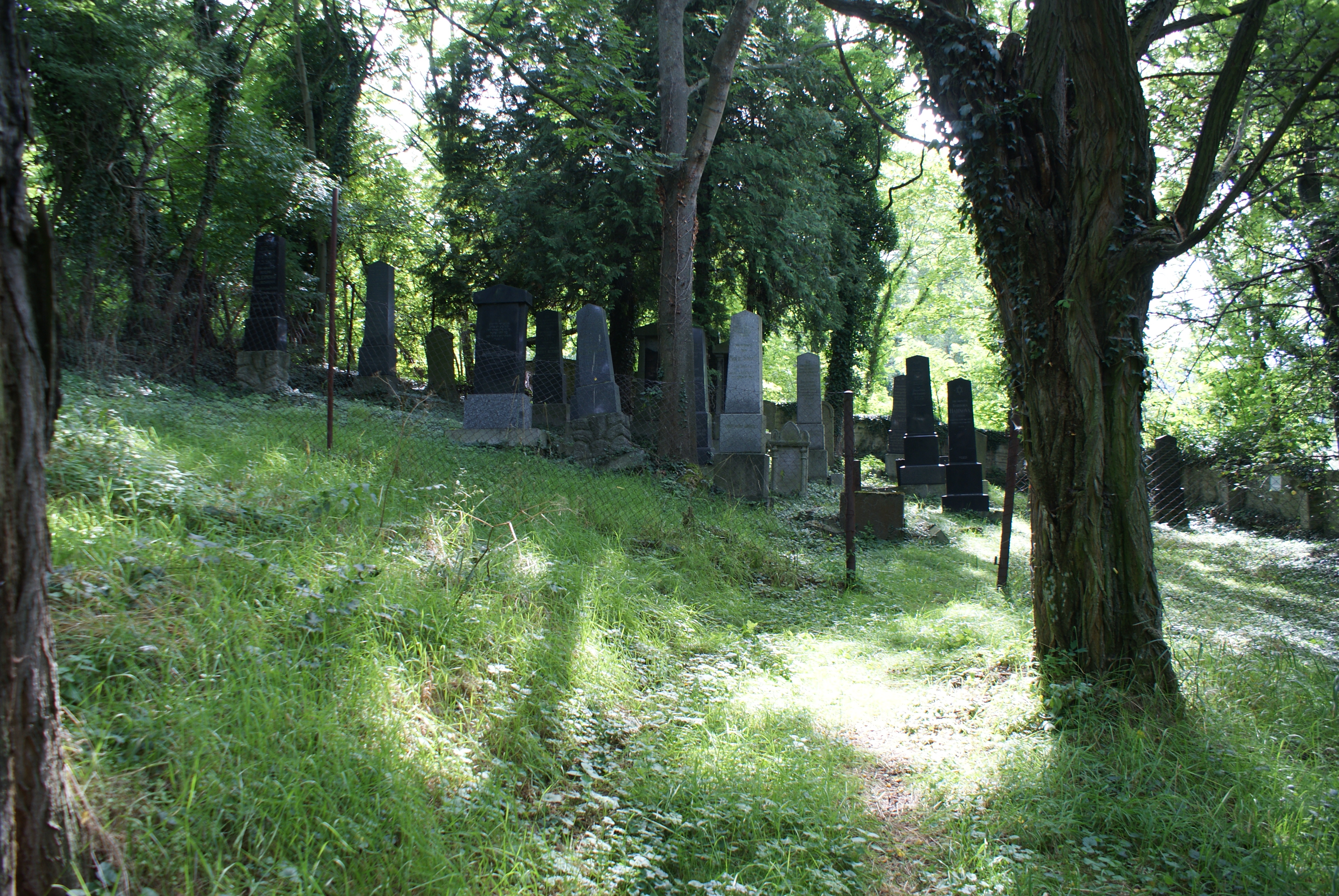 New Jewish cemetery in Švihov, Klatovy district, Czech Republic. Česky: Nový židovský hřbitov ve Švihově okr. Klatovy